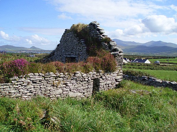 Ruined church and burial ground at Ballywiheen. The ruin of the chapel is surrounded by gravestones. The ground is very uneven. The Brandon group mountains are in the distance.